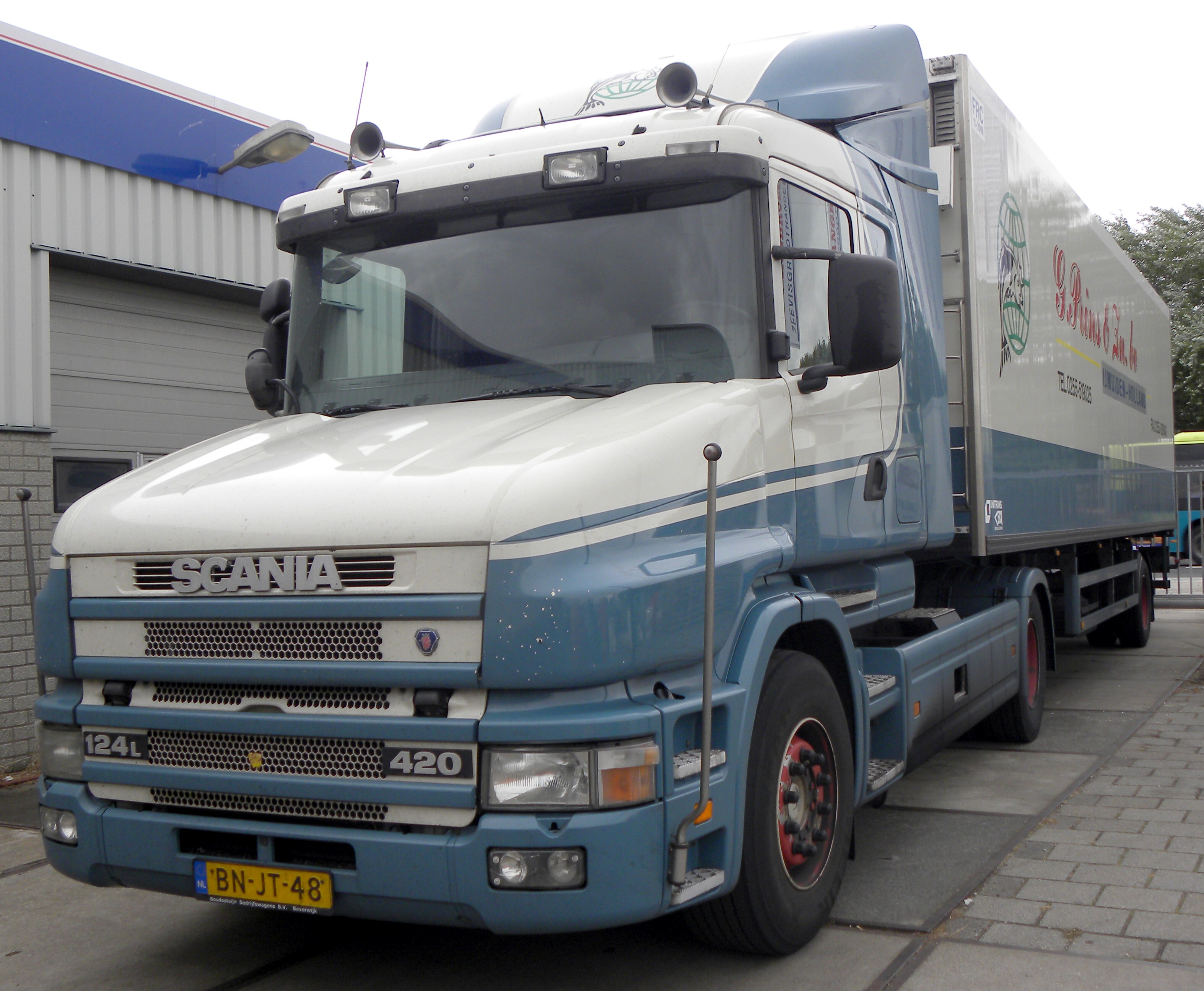 Scania T124 LA 4 X 2 NA420 -G. Prins & Zn. bv. IJmuiden